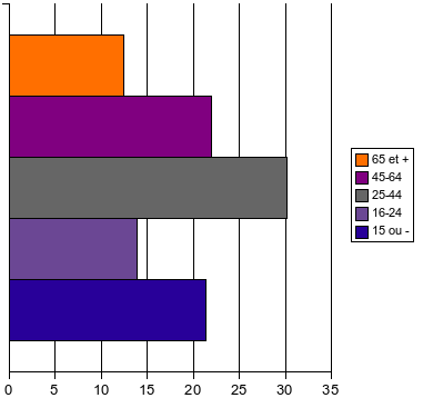 It's a diagram representing the age repartition in the county of New London (Connecticut)